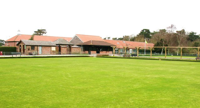 Bowling Green, West Bank Park, Holgate